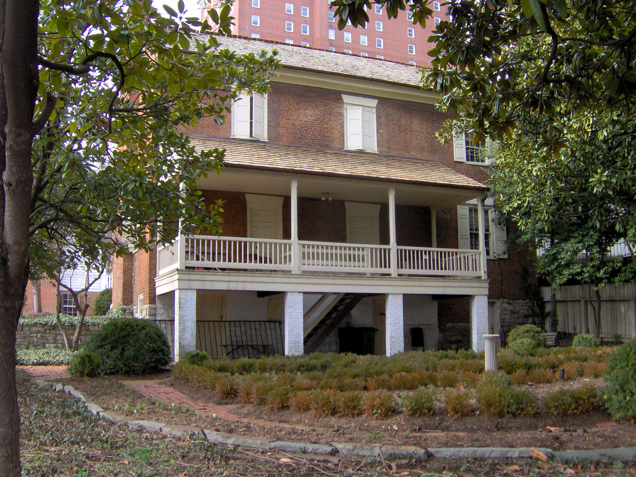 Rear view of the Craighead-Jackson House in Knoxville, in the U.S. state of Tennessee. Part of Blount Mansion is visible in the background on the left.